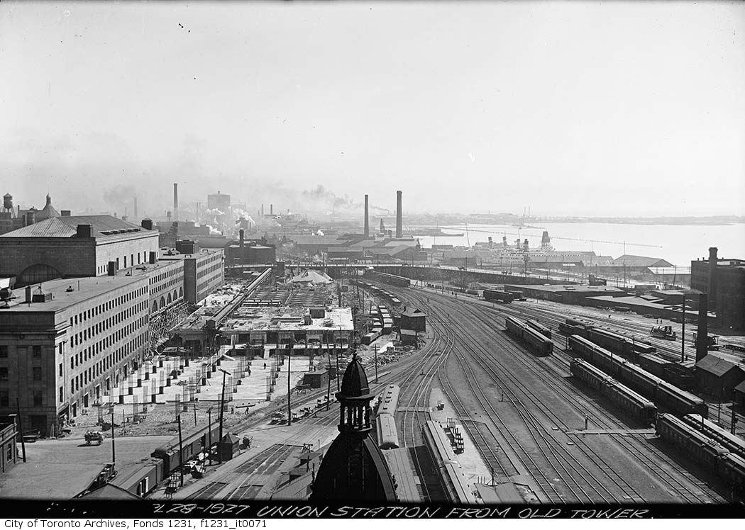 Original caption: “1927 Union Station from old tower”